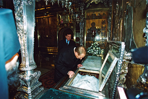 SERGIEV POSAD, MOSCOW REGION. President Putin next to the holy relics of St Sergius of Radonezh in the Trinity Cathedral of the Holy Trinity Monastery of St Sergius.